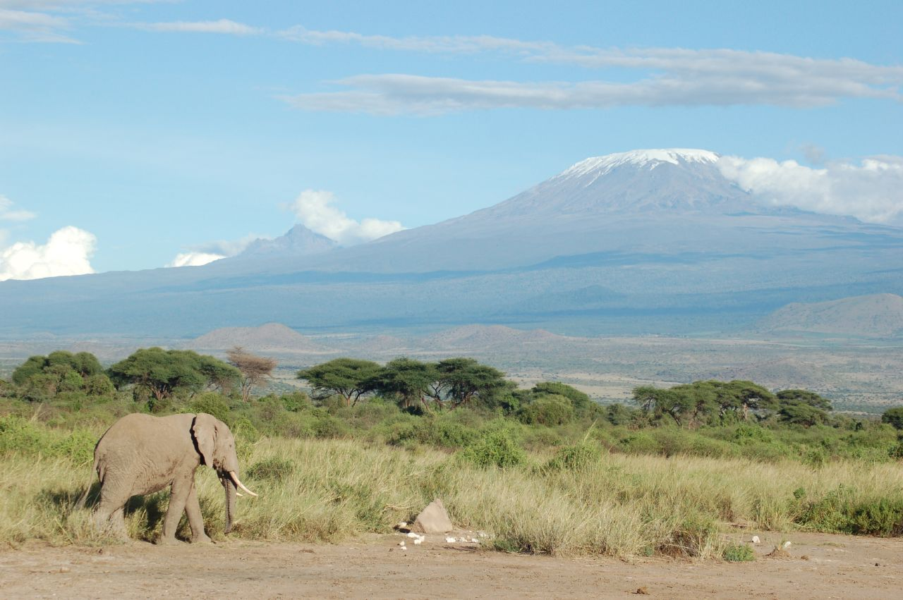 The classic Tanzania shot: Elephant and Kilimanjaro